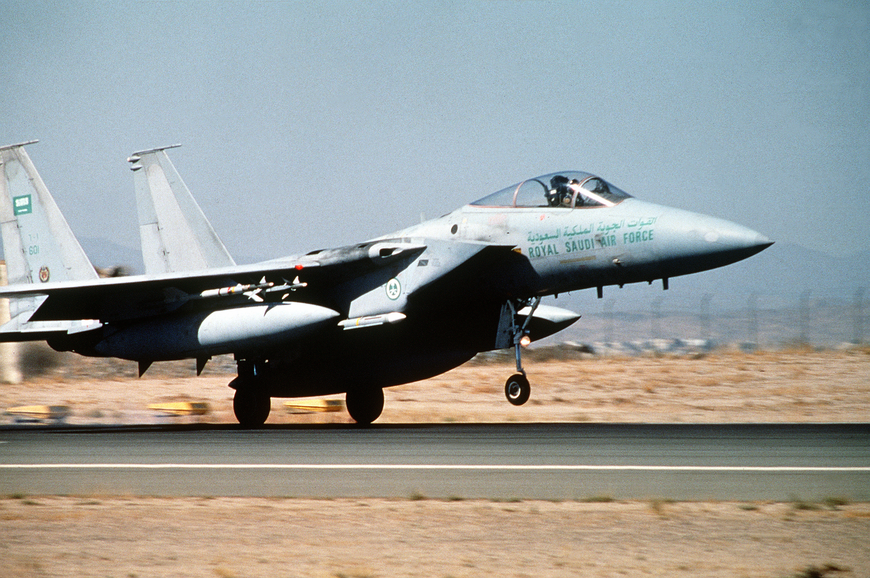 An F-15 Eagle aircraft of the Royal Saudi Air Force takes off during Operation Desert Shield.